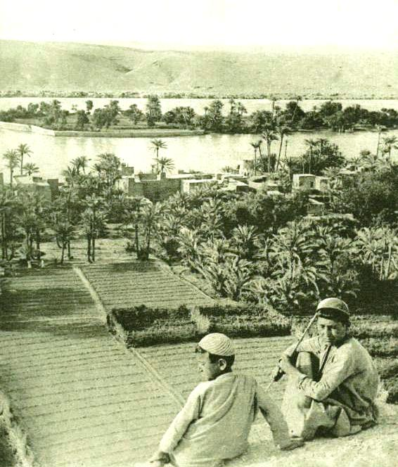 Allegedly the location of the Garden of Eden, at the mouth of the Tigris.